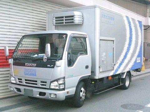 Sagawa Express truck(Isuzu Elf)